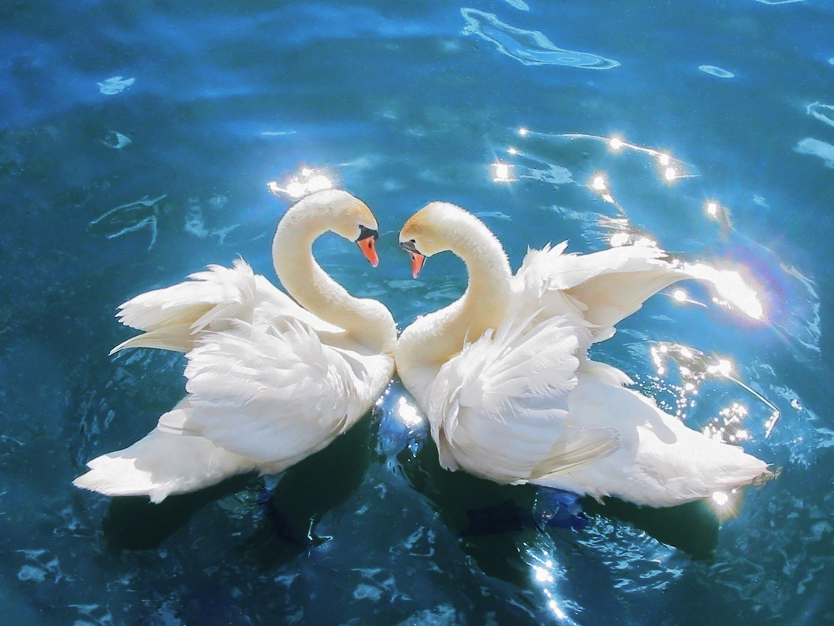 Two swans forming a heart shape